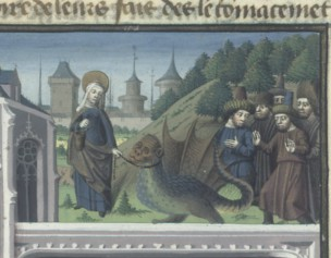 Sainte Marthe et la Tarasque, détail de la partie supérieure du folio 340v (image 169) Cote : BNF Richelieu Manuscrits Français 50, Vincentius Bellovacensis, Speculum historiale (traduction Jean de Vignay), France, Paris, XVe siècle